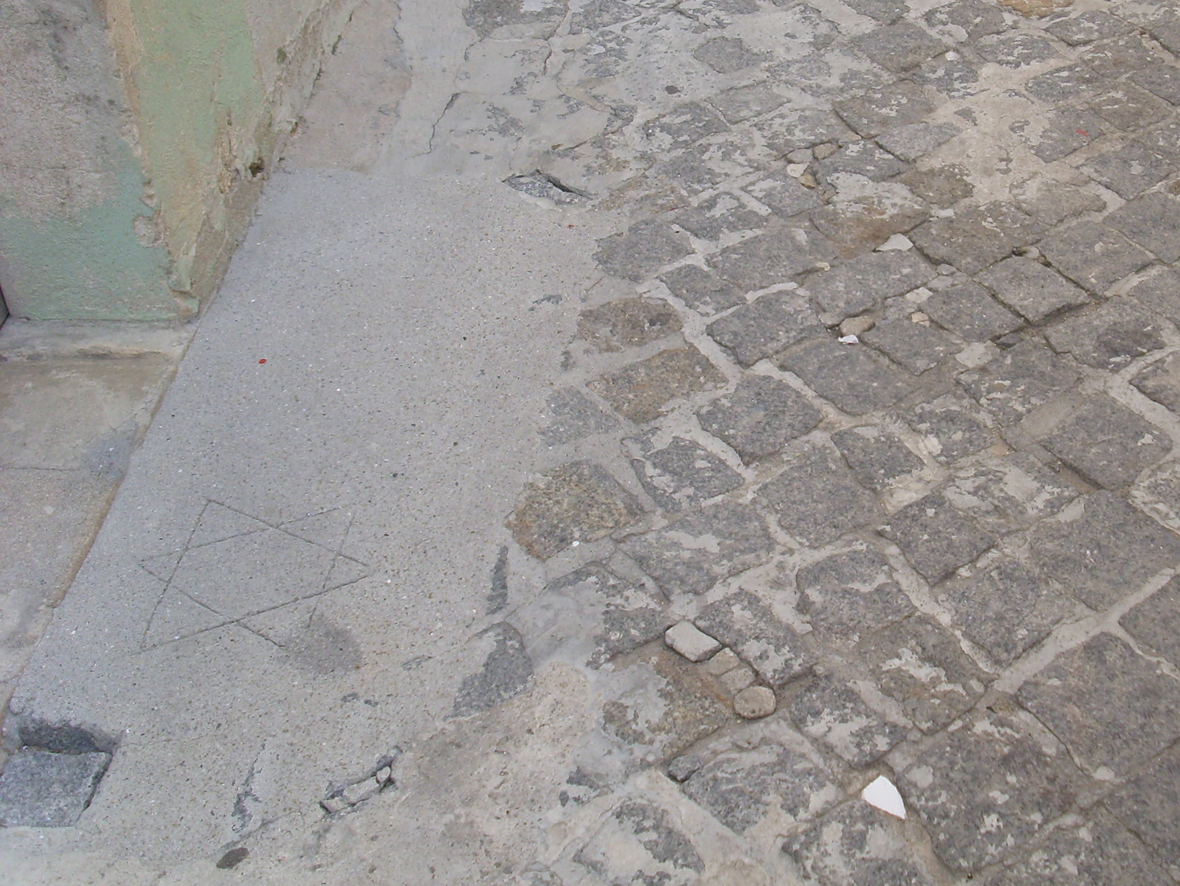 Sanselimao in a doorstep of the medieval quarter of Povoa de Varzim. Drawn recently potentially for house protection from witches.